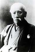 Japanese entrepreneur and fonder of Kawasaki Heavy Industries, Kawasaki Shōzō